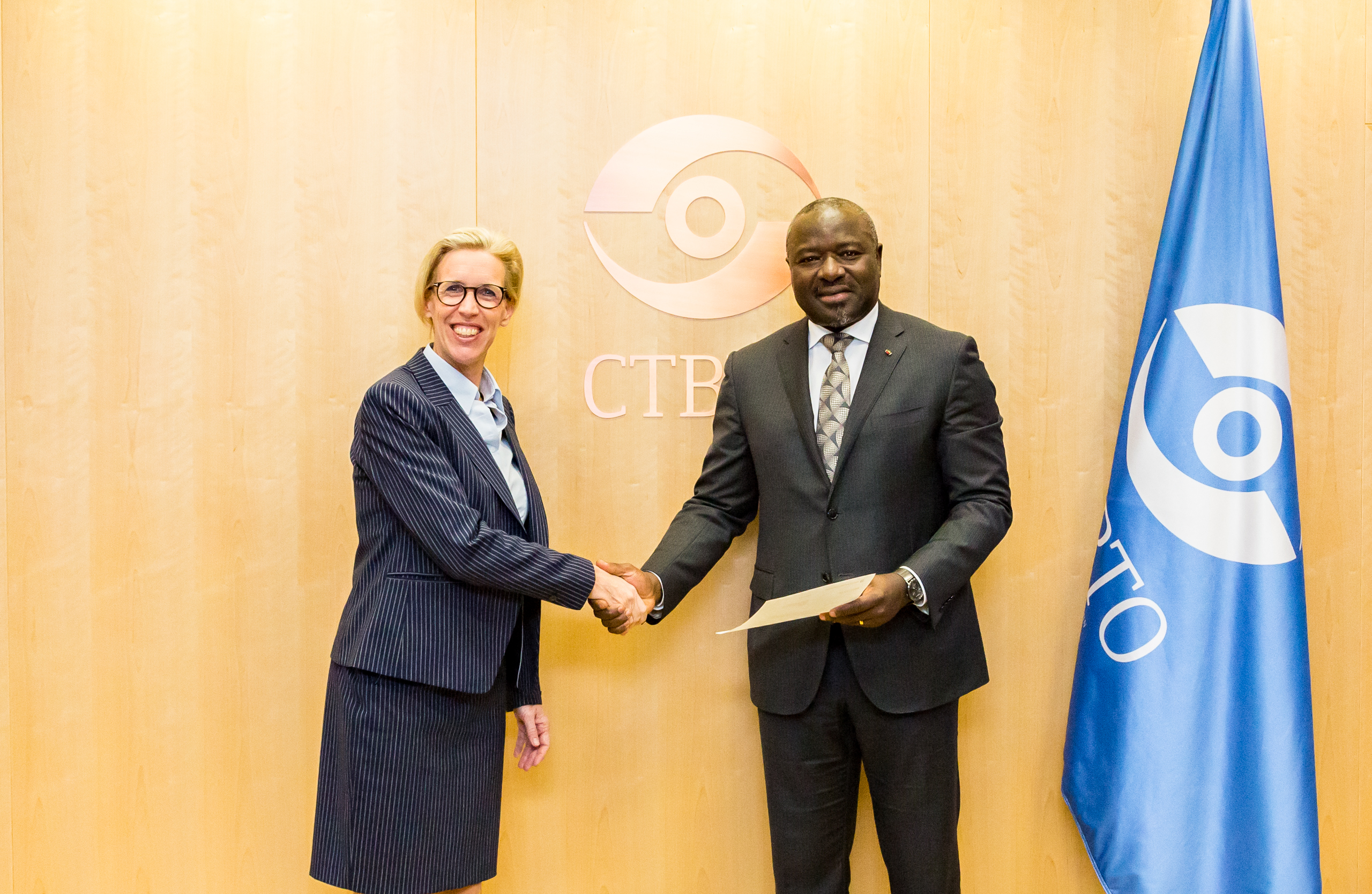 HE Mikaela Kumlin Granit, Permanent Representative of the Kingdom of Sweden, presents her credentials to the Executive Secretary of the Comprehensive Nuclear-Test-Ban Treaty Organization, on Wednesday, 17 October 2018.